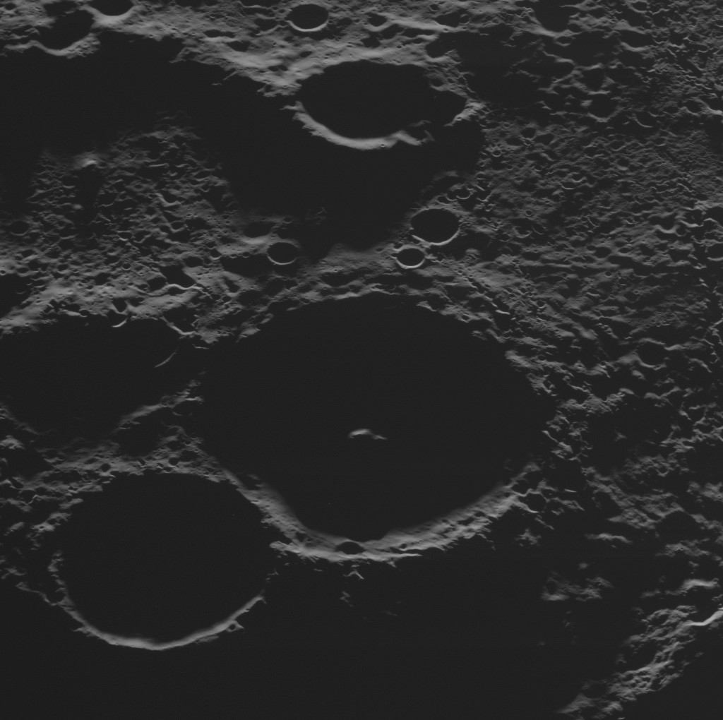 Tolkien crater (center) on Mercury. Tryggvadóttir crater is in lower left, and the north pole of Mercury is along its rim in the foreground. Gordimer crater is in upper left. Resolution: 99 m/pixel Emission Angle: 41.7 Incidence Angle: 88.7 Latitude: 88.6 Longitude: 155.5 Phase Angle: 130